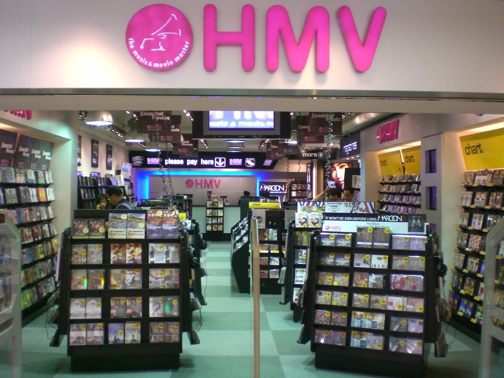 金鐘廊 - HMV商店